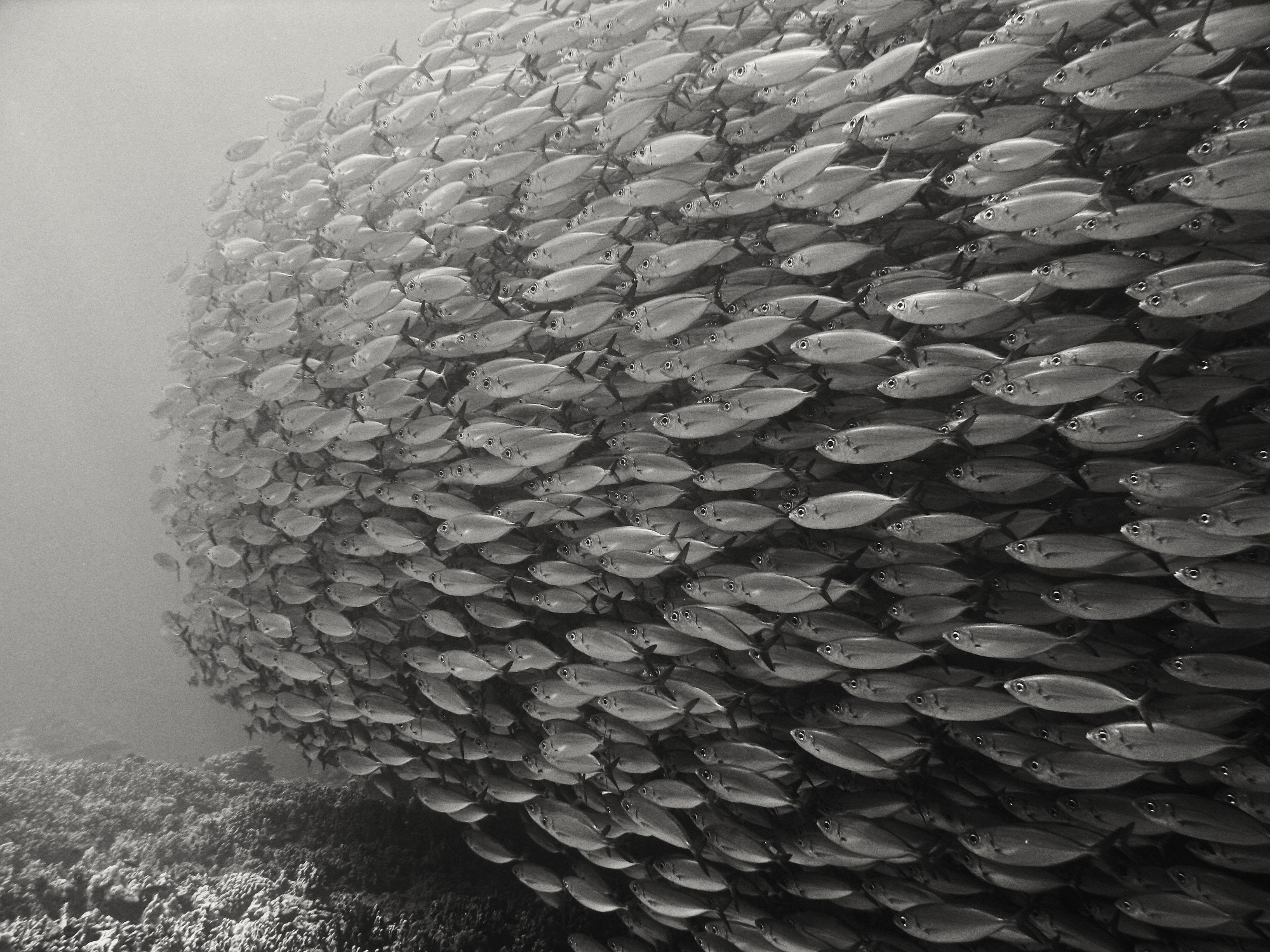 Big Eyed Scad ( Selar crumenophthalmus or ( synonym) Trachurops crumenophthalmus ), Kona Hawaii (Hawaiian name: Akule), feed offshore on plankton at night, and tend to congregate in huge schools in shallow water for protection during the day. The baitball can be massive - as big as a house, hundreds of thousands of fish. If the water is clear and you can find the school, these are a blast to shoot. I've run out of air and camera battery more then once getting pictures like this. This image was from last year, shortly before some local fishermen moved in and constructed a huge pen to fish the school out. They gave up without catching the scad, but stressed them enough so they disappeared. A year later, I've heard reports that small schools are starting to reform at different locations. This pic is a small vignette of the overall baitball, taken before I equipped myself with wide angle capability.